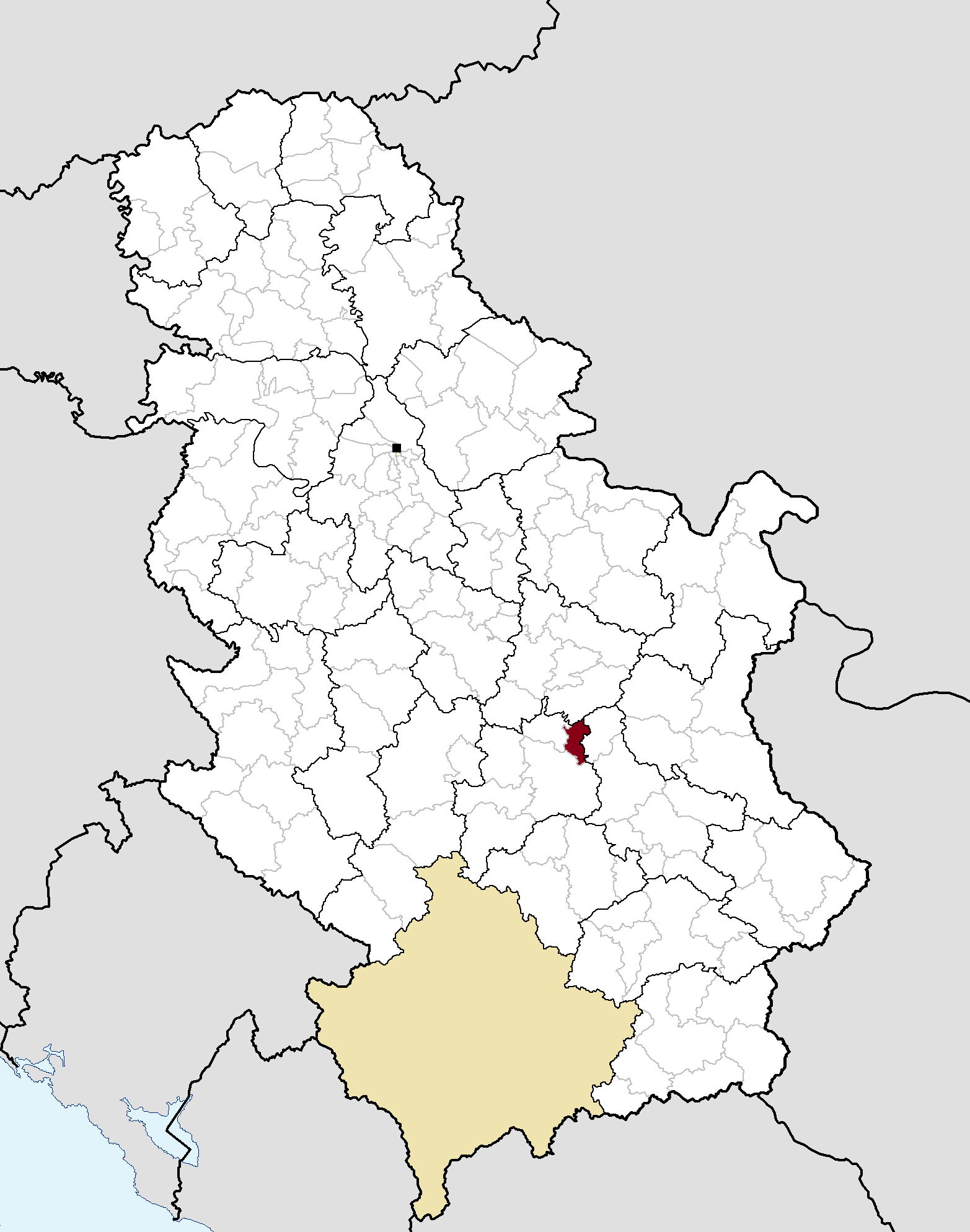 Municipal location in Serbia